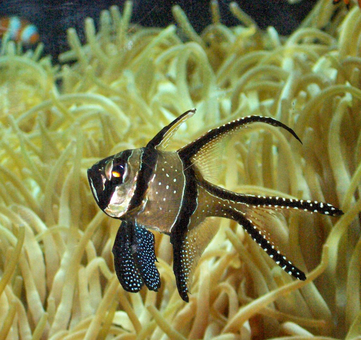 Banggai cardinal fish (Pterapogon kauderni); Musée Océanographique de Monaco